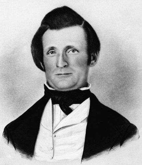 Almon W. Babbitt, used to illustrate him in biographical article. Photo by an unknown photographer c. 1850.